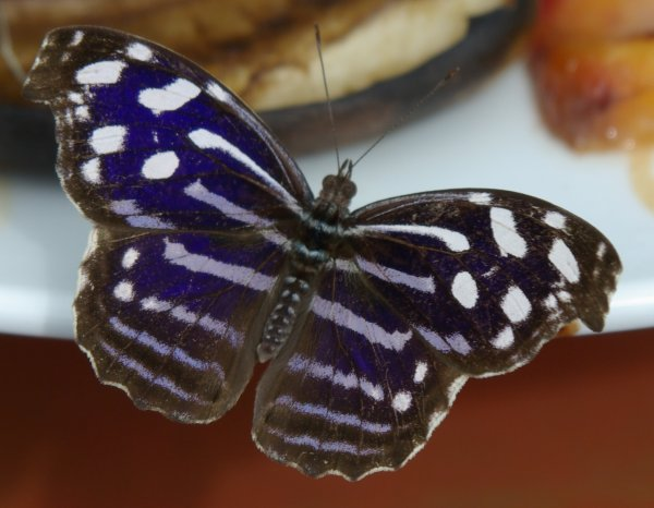 Royal Blue (Myselia cyaniris), 12th Live Butterfly Exhibit, Brookside Gardens, Wheaton MD